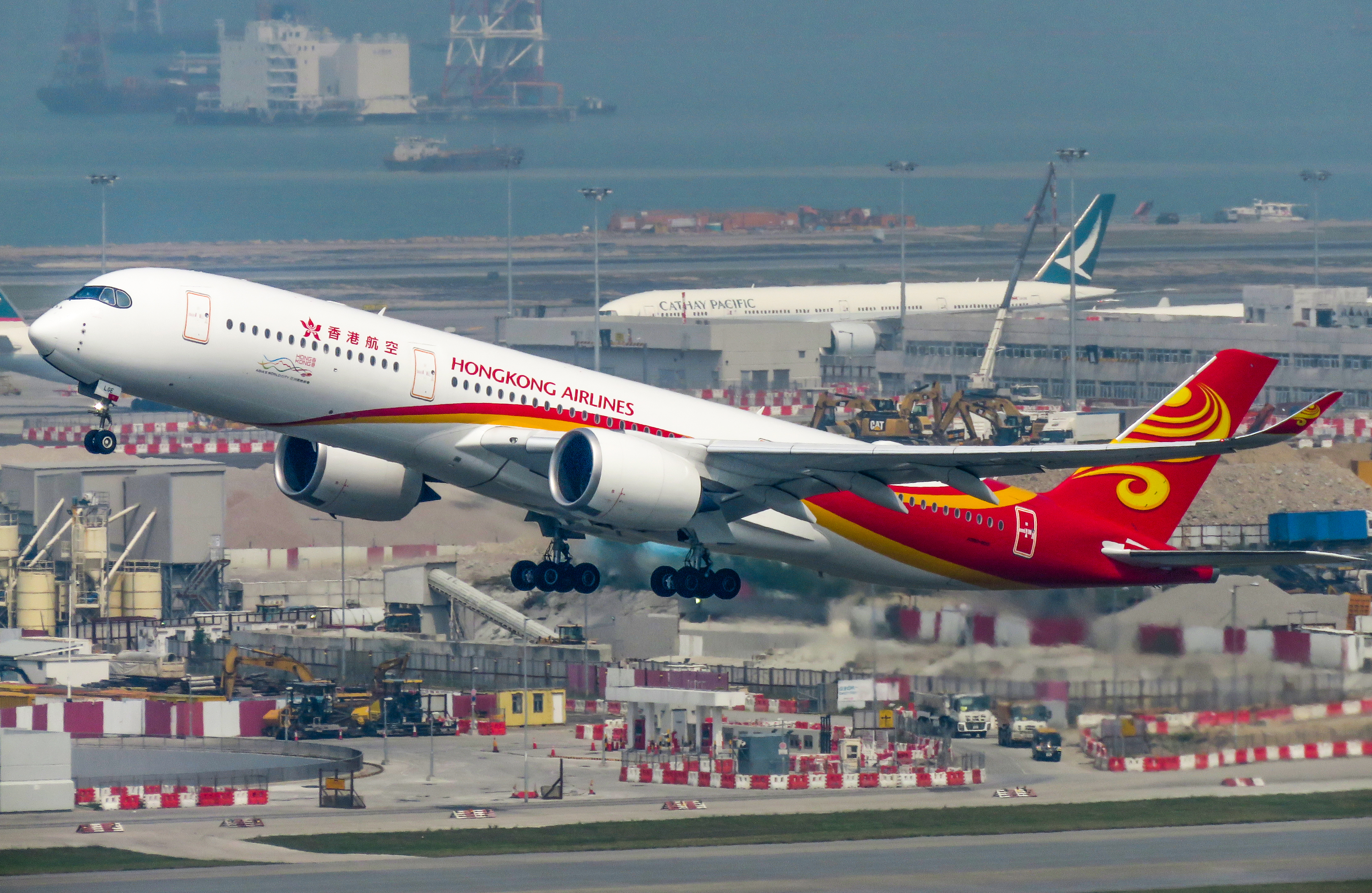 Bauhinia 68 to Los Angeles. HX's first 350 with new business class roars to the sky.